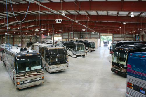 Facility Inside